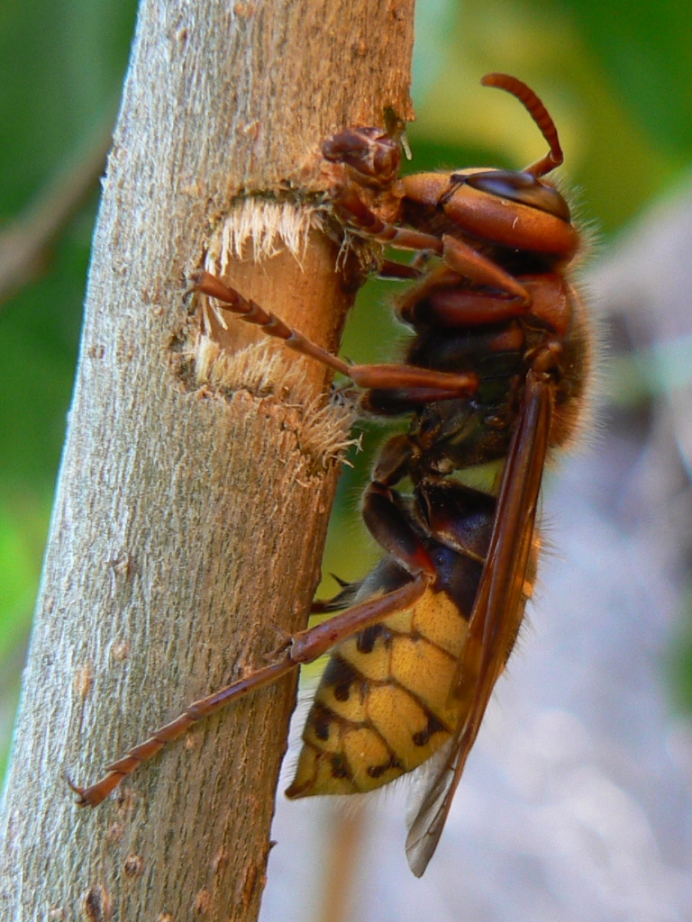 Sinistral view of an european hornet (Vespa crabro) while harvesting fiber and sap from a lilac twig.